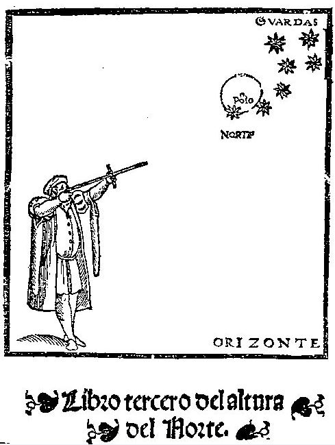 Cross-staff in Regimento de Navegacion by Pedro Medina, 1552.